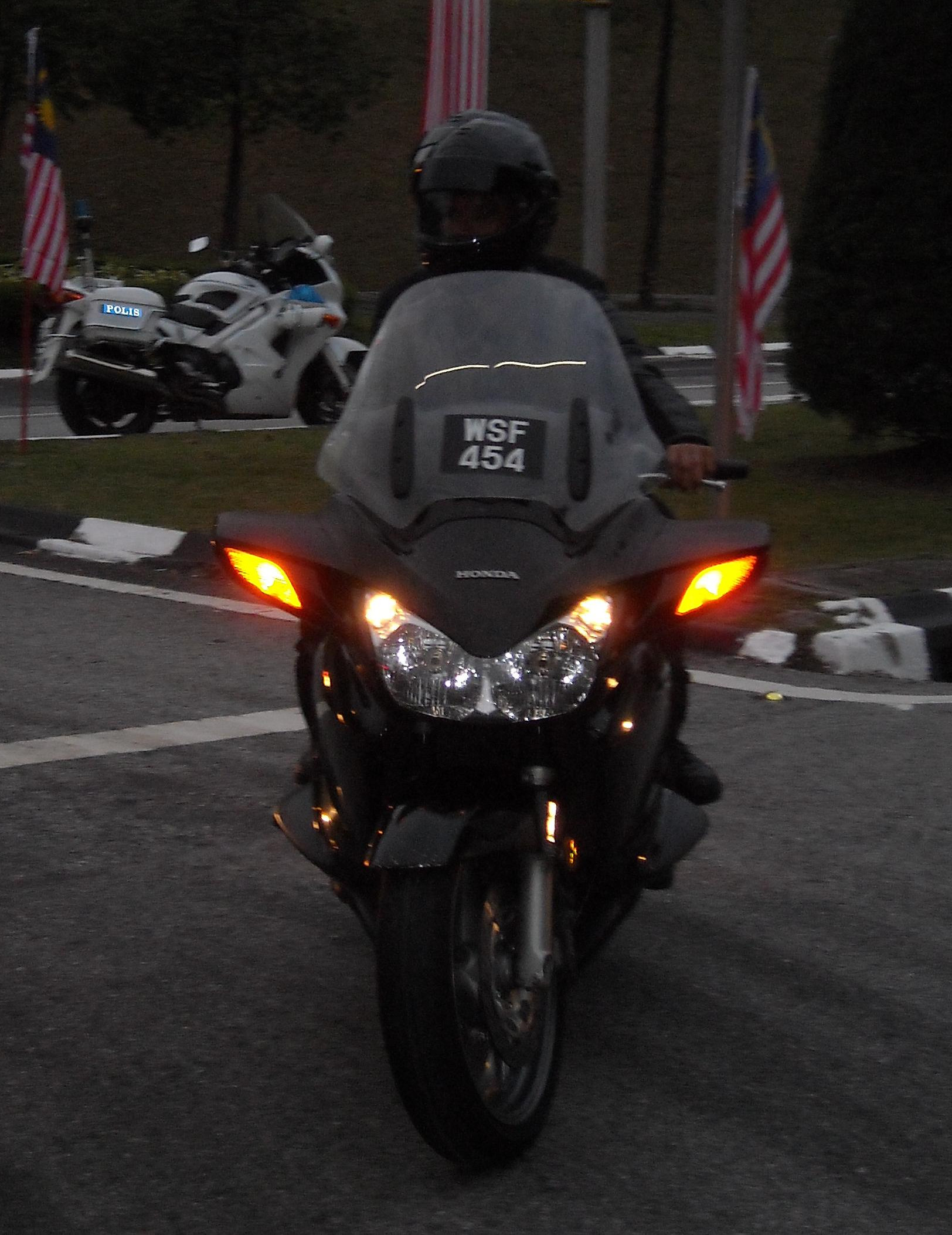 The PGK Detachment A Motorcycle Squad turning right the black-colored Honda ST1300 Pan European to the Parliament Square, Kuala Lumpur, Malaysia.